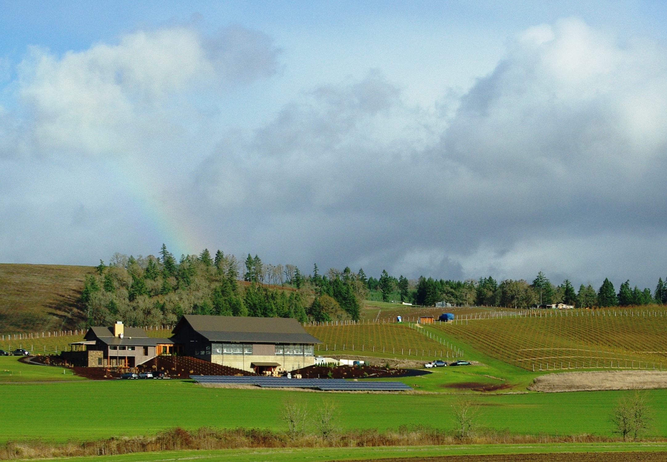 Soléna and Grand Cru Estates winery off Oregon Route 140 east of Carlton, Oregon, USA. Solar panels are in the foreground, vineyards in the background. Rainbow is visible on the upper-left side.